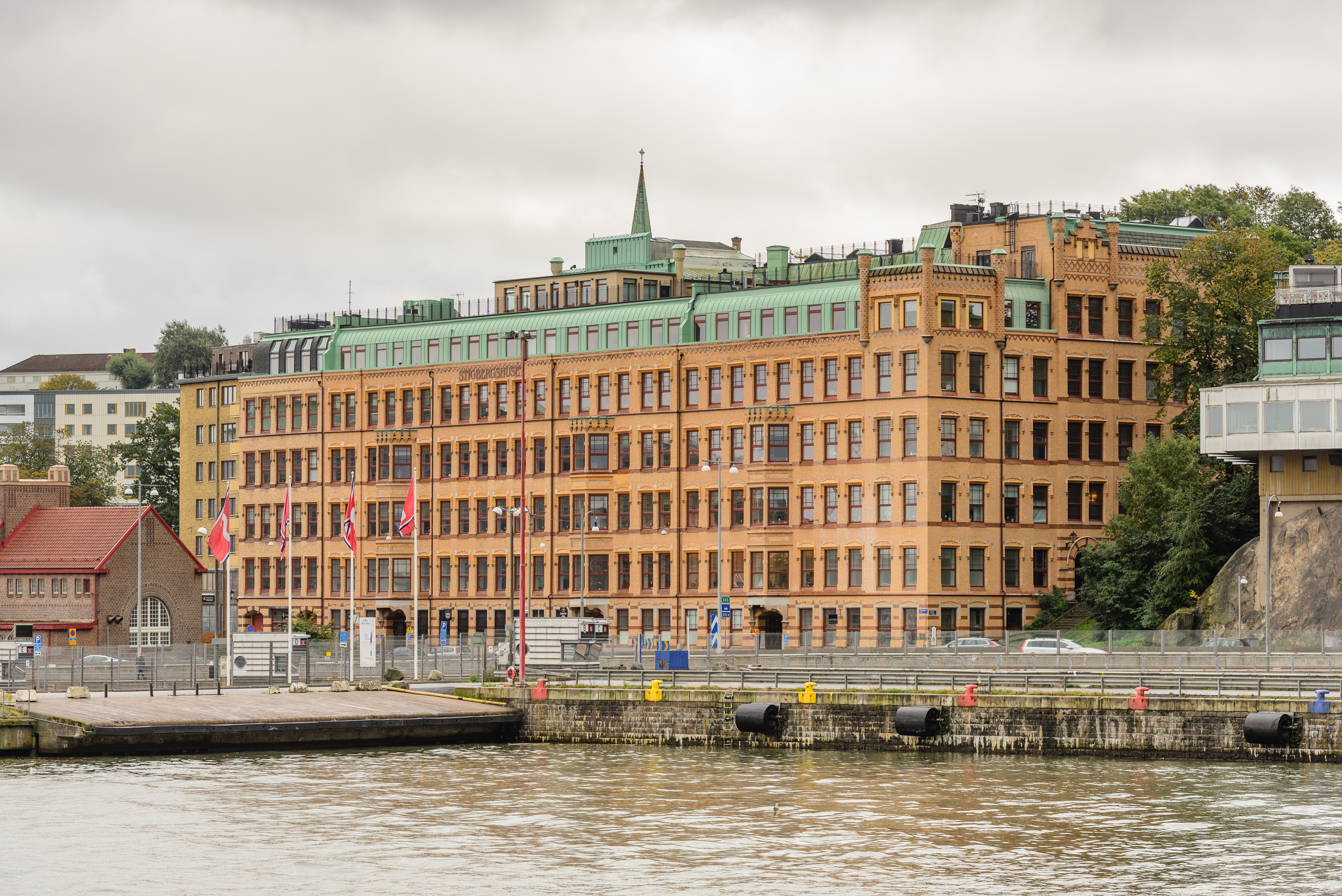 Wettergrens kappfabrik is a historic factory building in Göteborg.